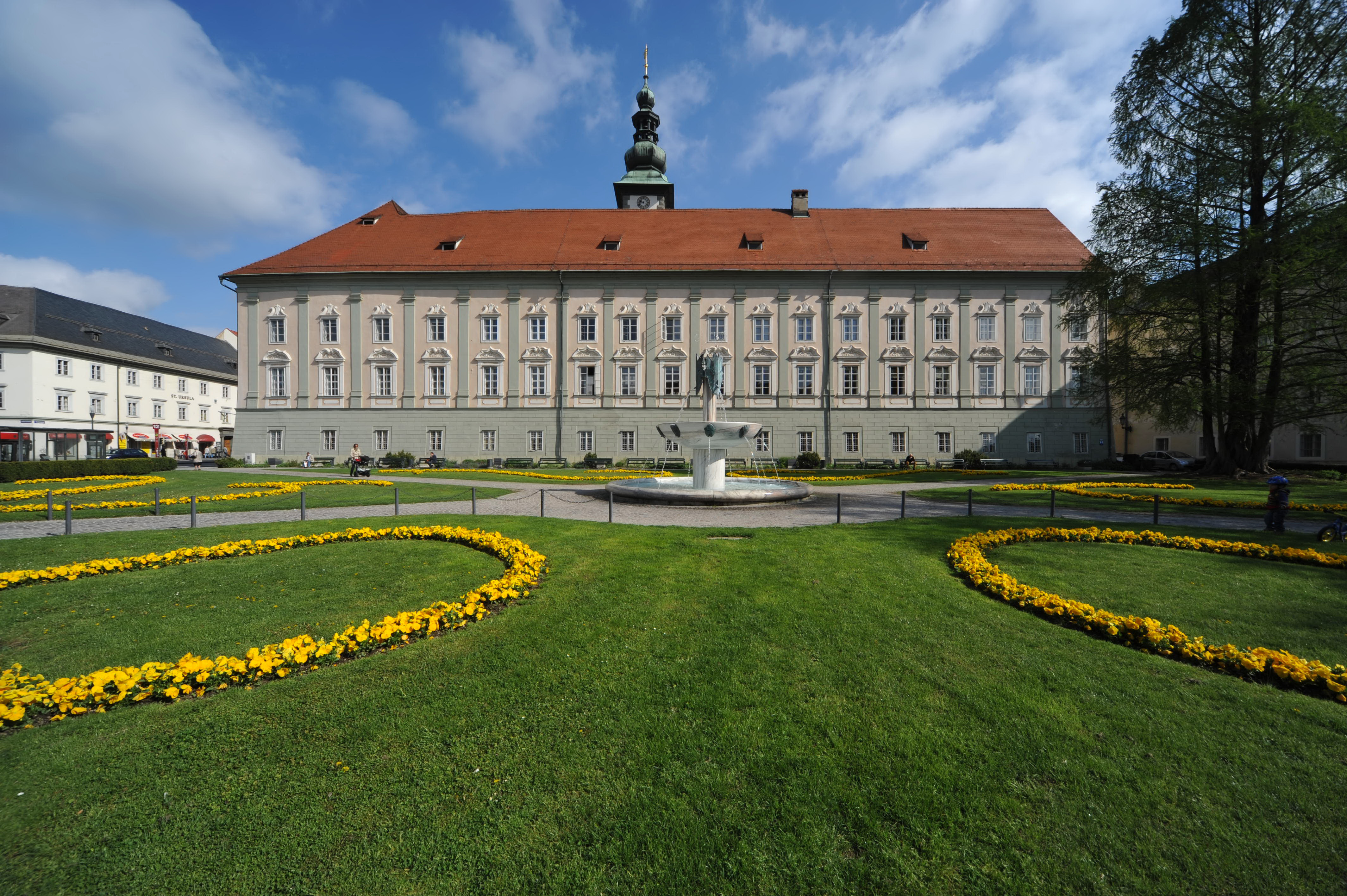 Southern view of Landhaus on Landhaushof #1, inner city, statutary city Klagenfurt, Carinthia, Austria, EU